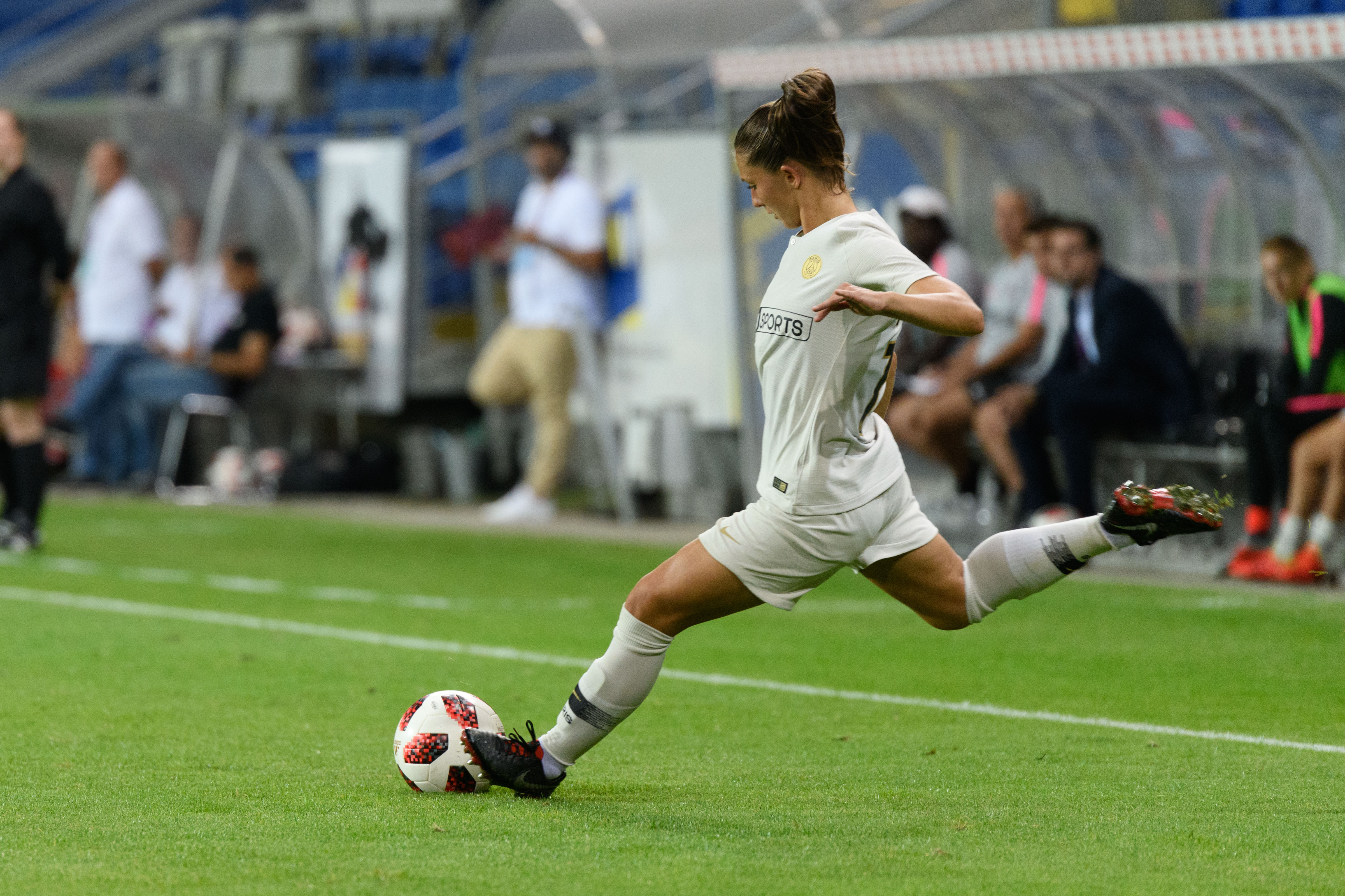 UEFA Women's Champions League 2019 Final Round of 32 SKN St.Poelten vs. Paris Saint Germain 2018/09/12. Picture shows Eve Perisset of PSG takes a free kick.